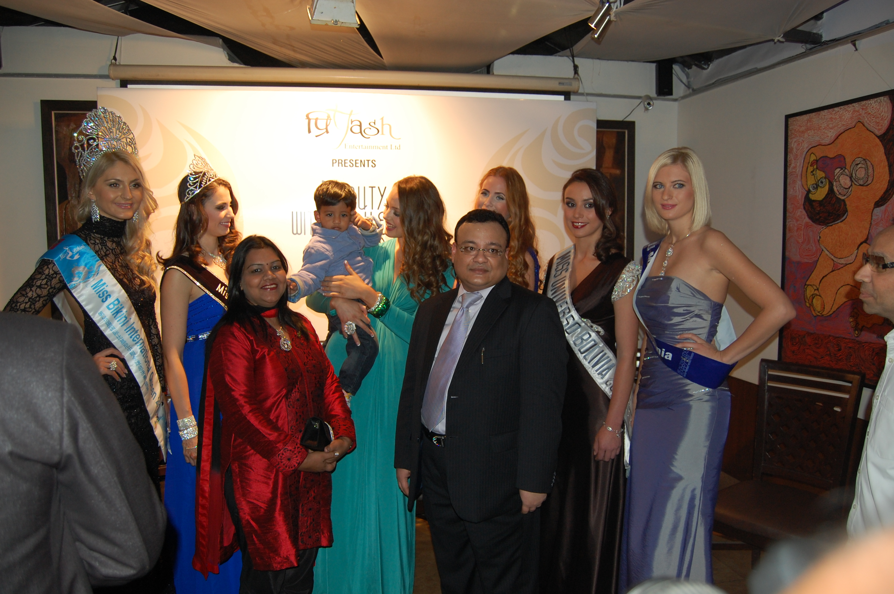 Diana Boanca (Miss Bikini International), Denise Garrido (Miss World Canada), Emma (Miss Ireland), HV Jain with Family (Jain Group of Comapnies), Fanney Ingvarsdottir (Miss World Iceland), Claudia Arce Lemaitre (Miss Bolivia Universe) & Marika Savsek (Miss Universe Slovenia).